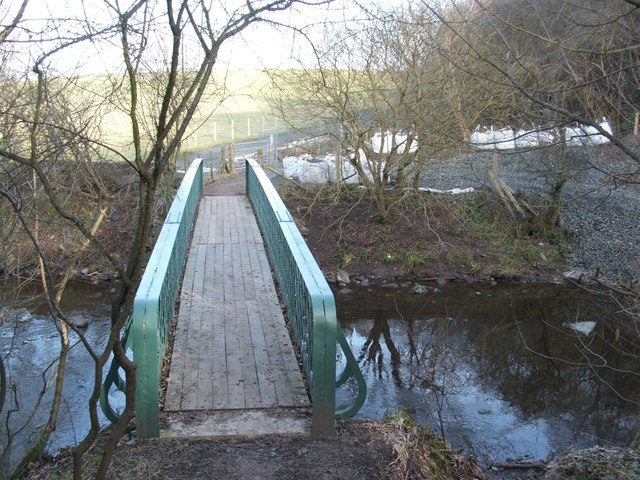 Footbridge over the Rotten Calder Following on from one of the least accessible stretches of the Clyde Walkway, this little footbridge leads over the Rotten Calder, which flows into the Clyde from the south (from the right, in this photo). The railway line runs just a little to the south of this bridge. The footpath that can be seen leading away from the bridge runs straight ahead for only 200 metres, with the railway line just above and to the right of it; the path then turns right, leading through a railway underpass.